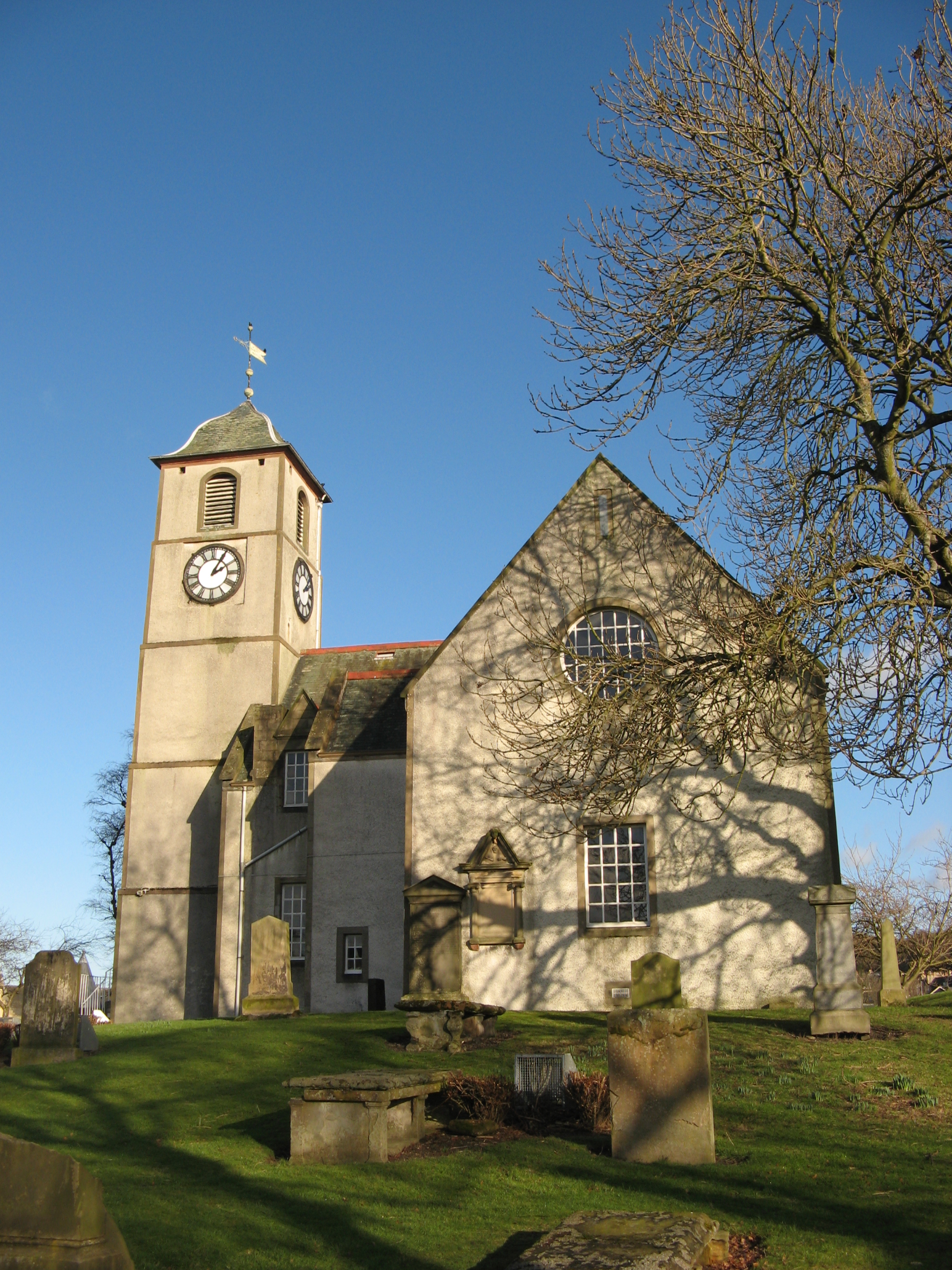 St Mary's Church, Hawick, Scottish Borders